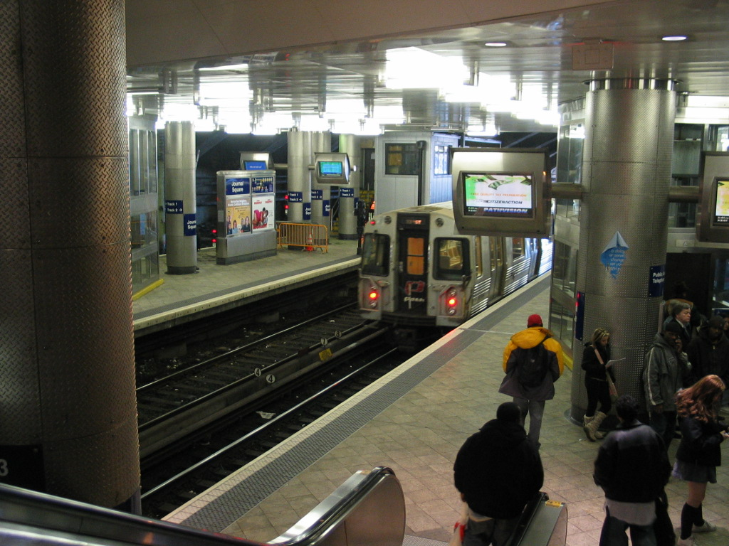 Tracks 2 and 3 as seen from Mezanine of the Journal Square Station. Looking westward